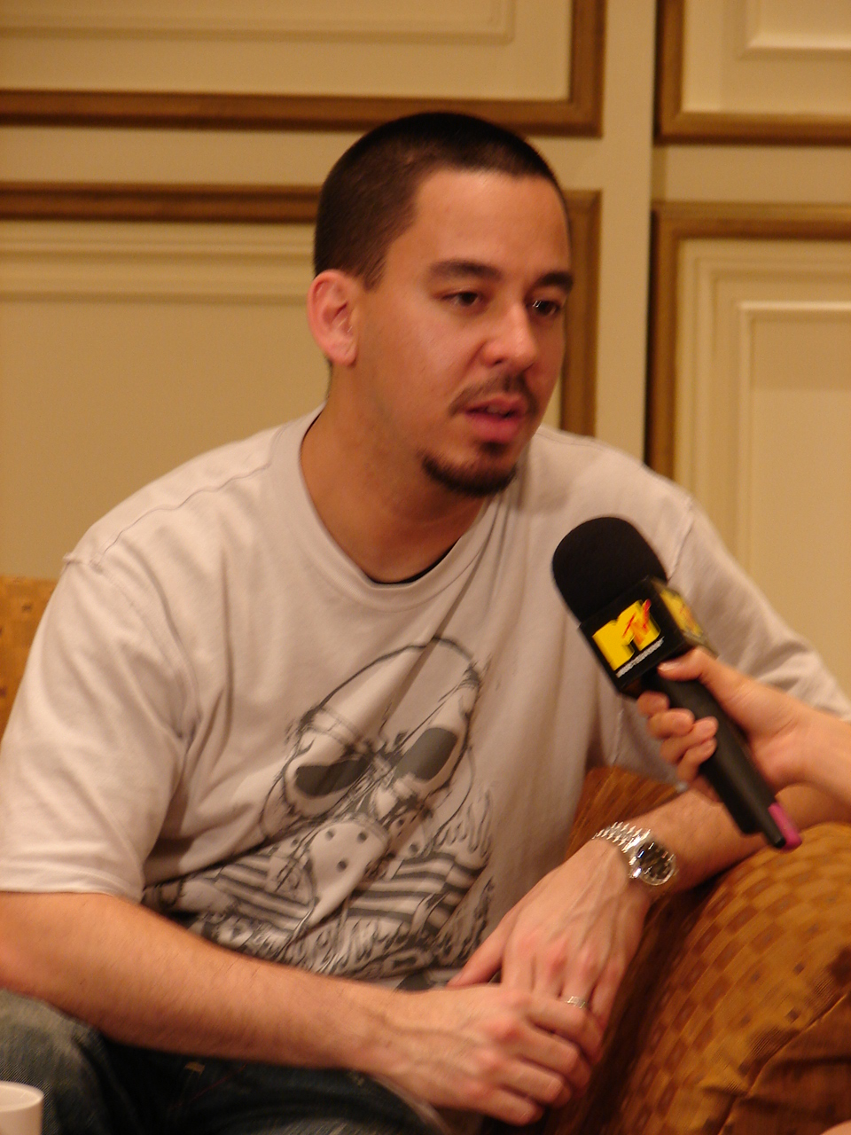 Mike Shinoda interviewed with MTVthailand in Bangkok